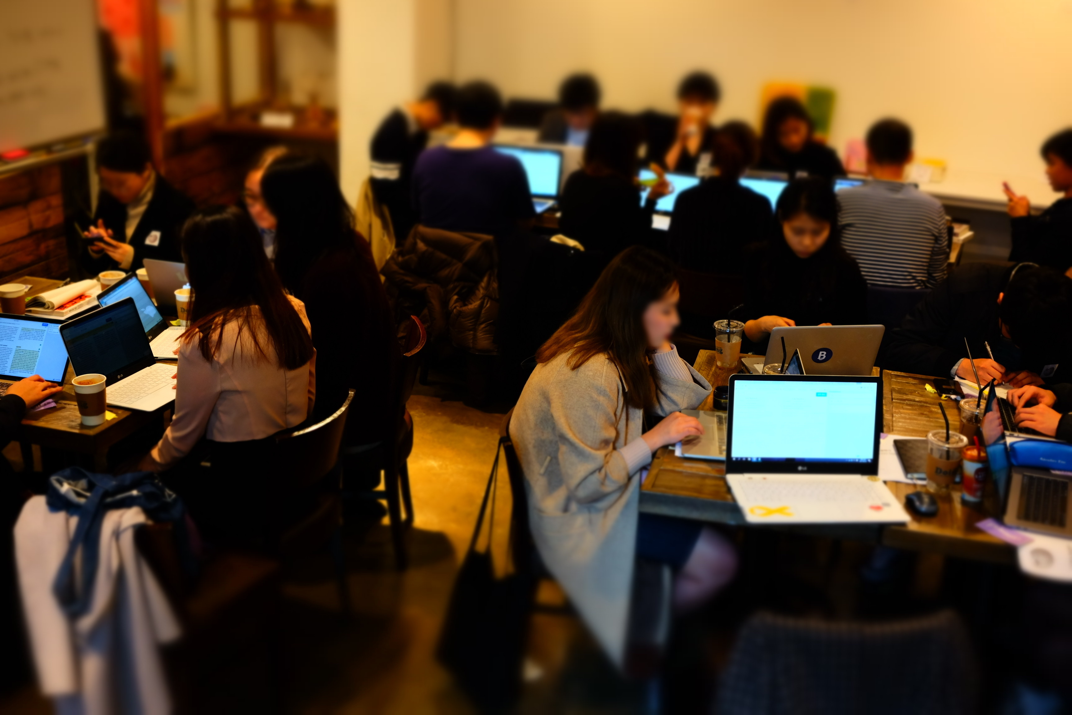 Wiki ♥ Feminism Editathon on March 25th, 2017 in Seoul